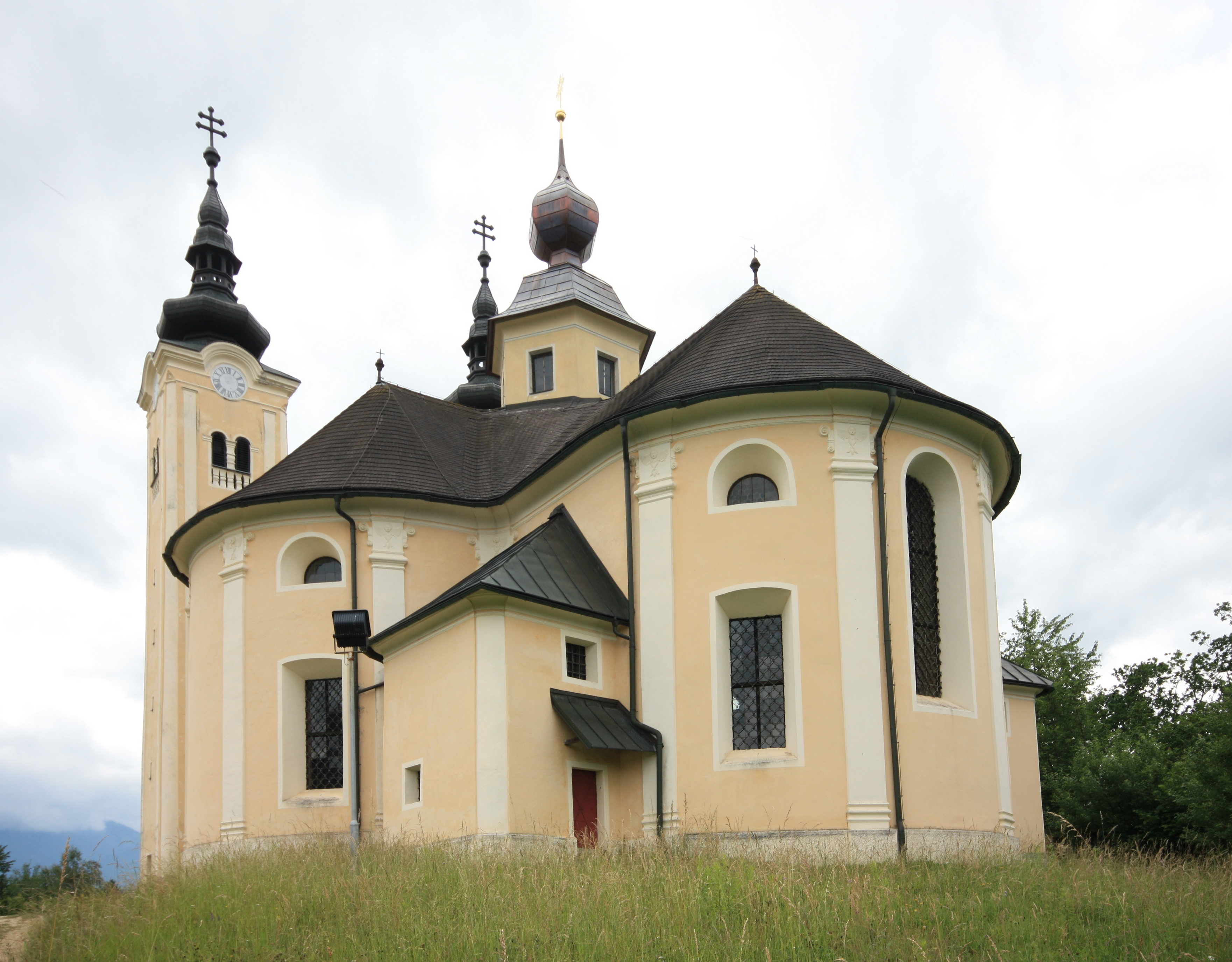 Pilgrimage-church "Heiligengrab", near Bleiburg, Carinthia